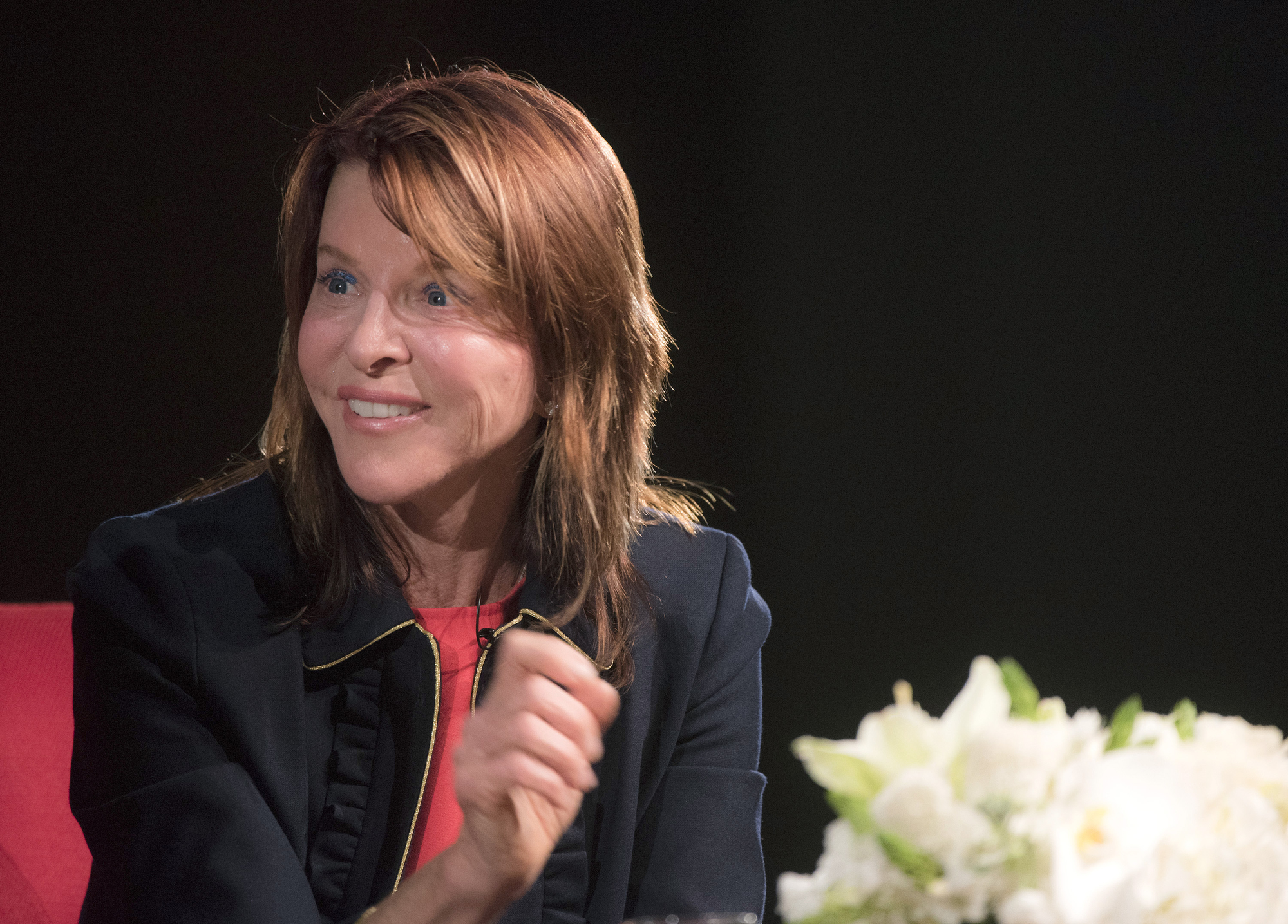 Harvard Business School historian Nancy Koehn joined LBJ Foundation President and CEO Mark K. Updegrove for a conversation about moral leadership held at the LBJ Presidential Library on Tuesday, February 5, 2019.